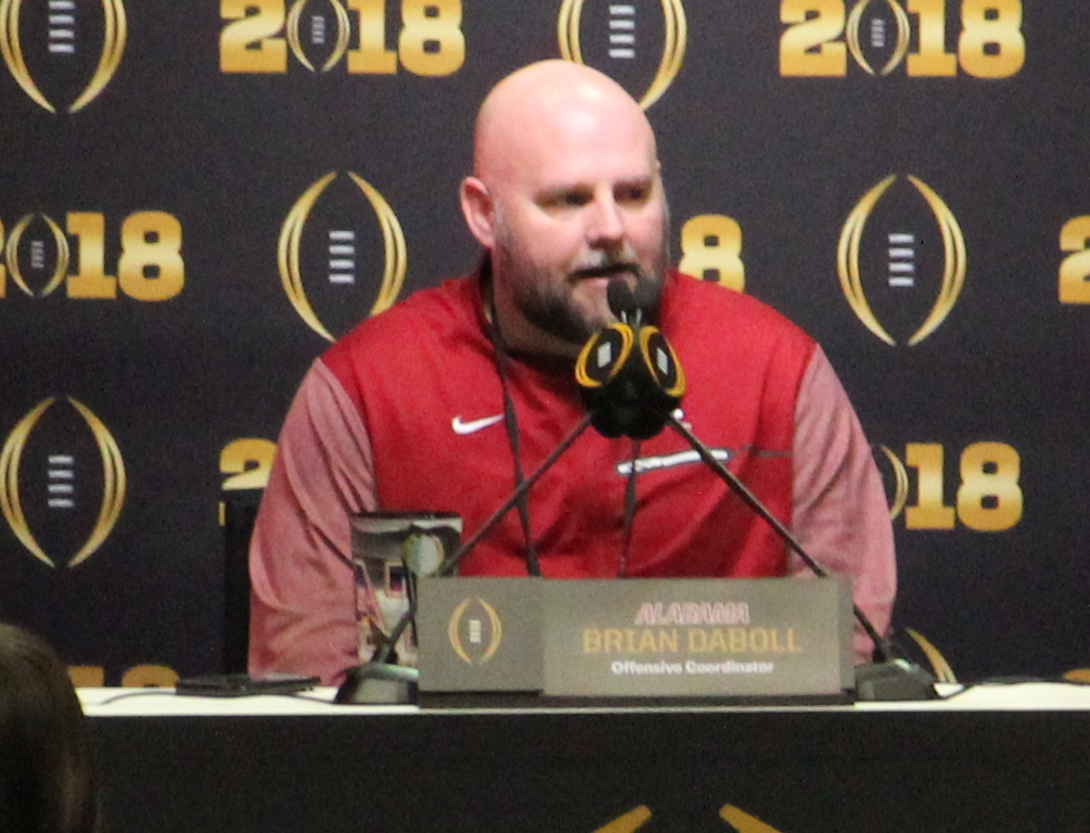 Brian Daboll at Media Day, Jan 2018